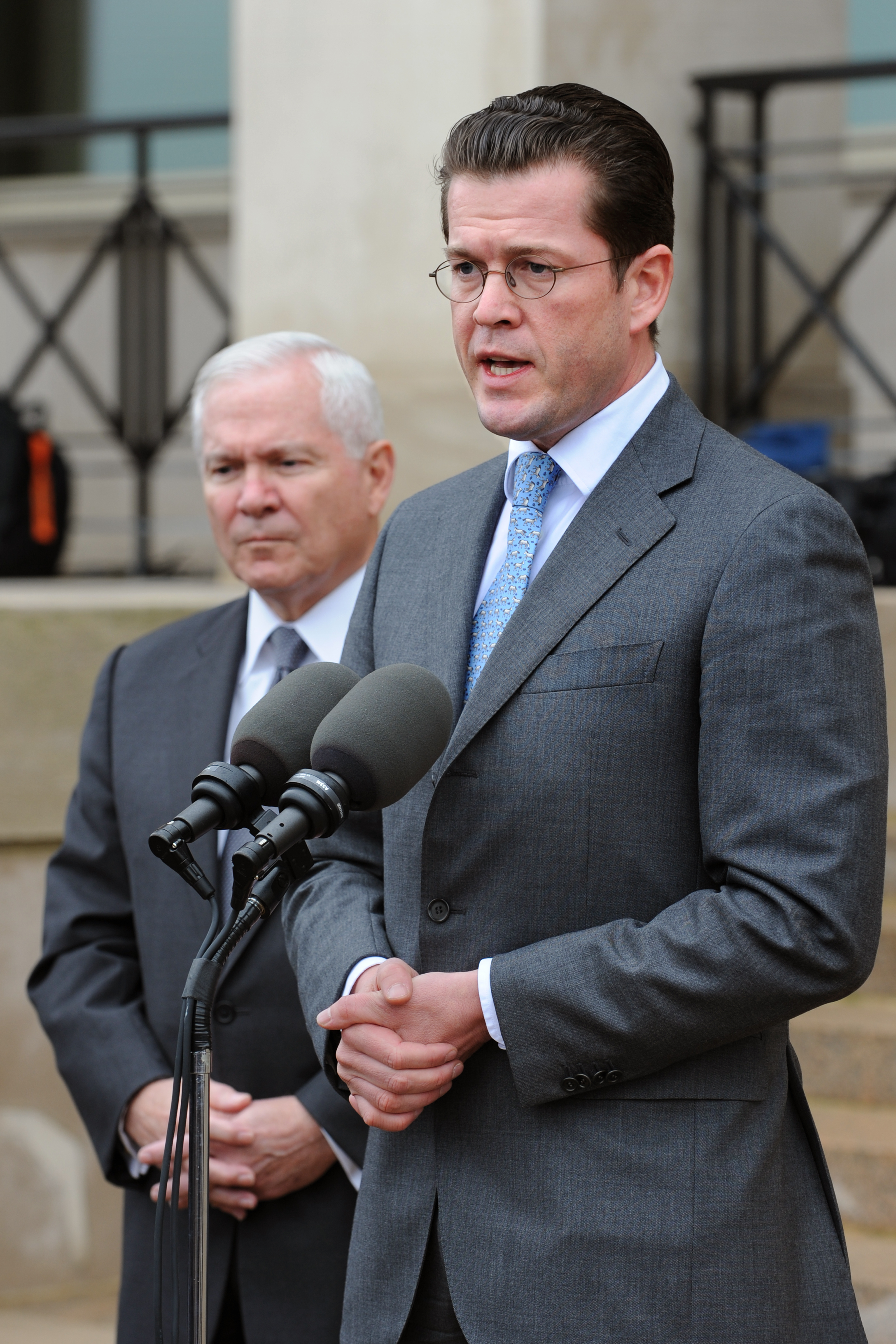 German Minister of Defense Karl-Theodor zu Guttenberg, right, responds to a reporter's question during a joint press conference with U.S. Secretary of Defense Robert M. Gates outside the Pentagon Nov. 19, 2009. Earlier the two defense leaders met in private and then held talks with some of their top advisors.